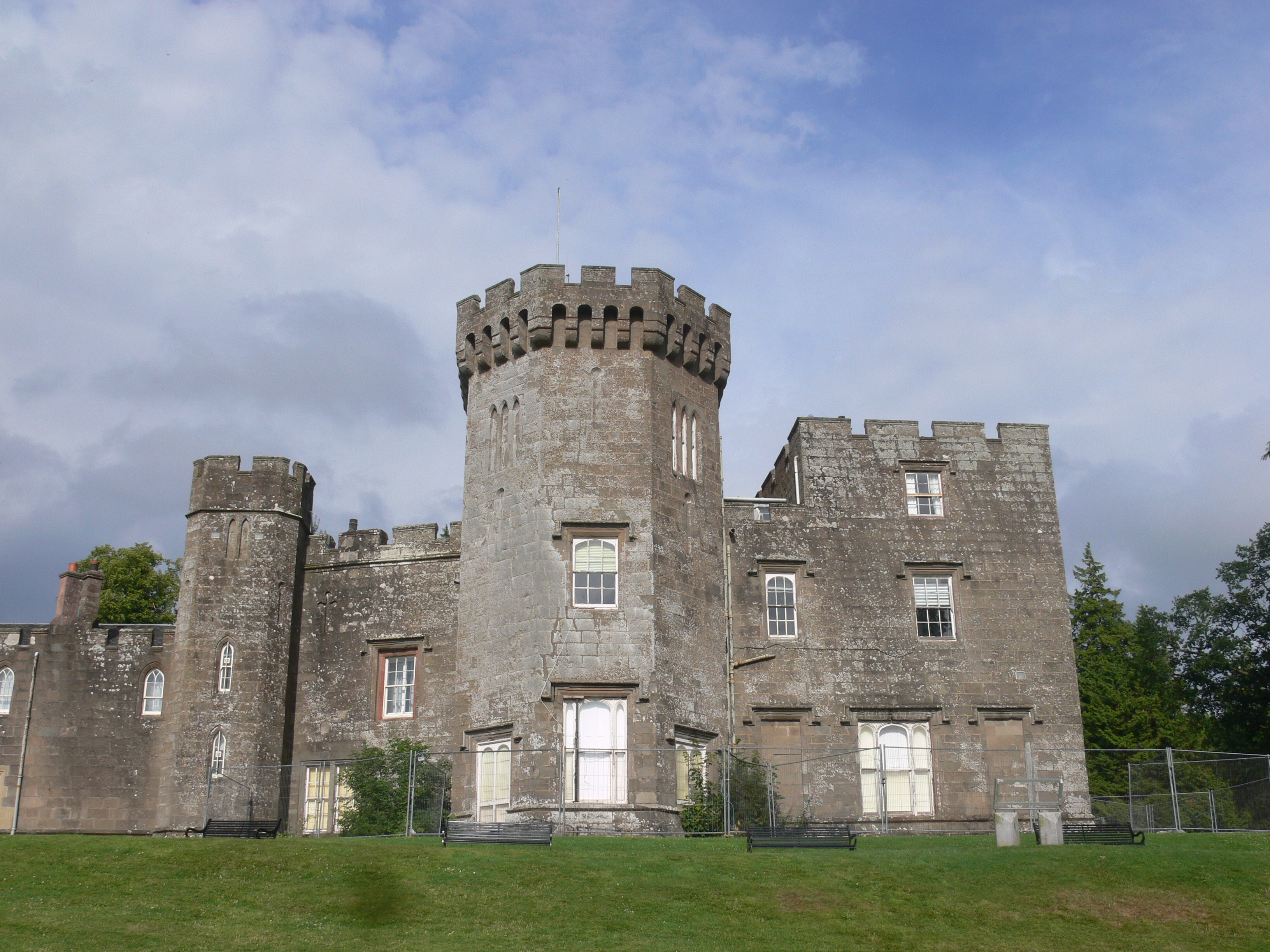 Balloch Castle